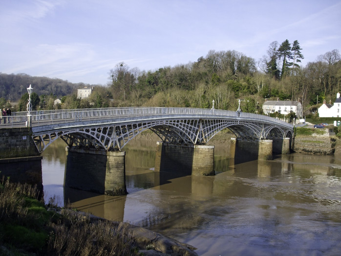 Old Wye bridge